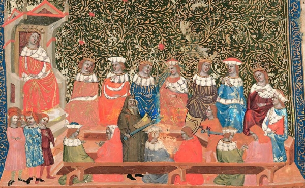 Svatopluk za přihlížení Arnulfa a jeho dvora bojuje s královým rytířem